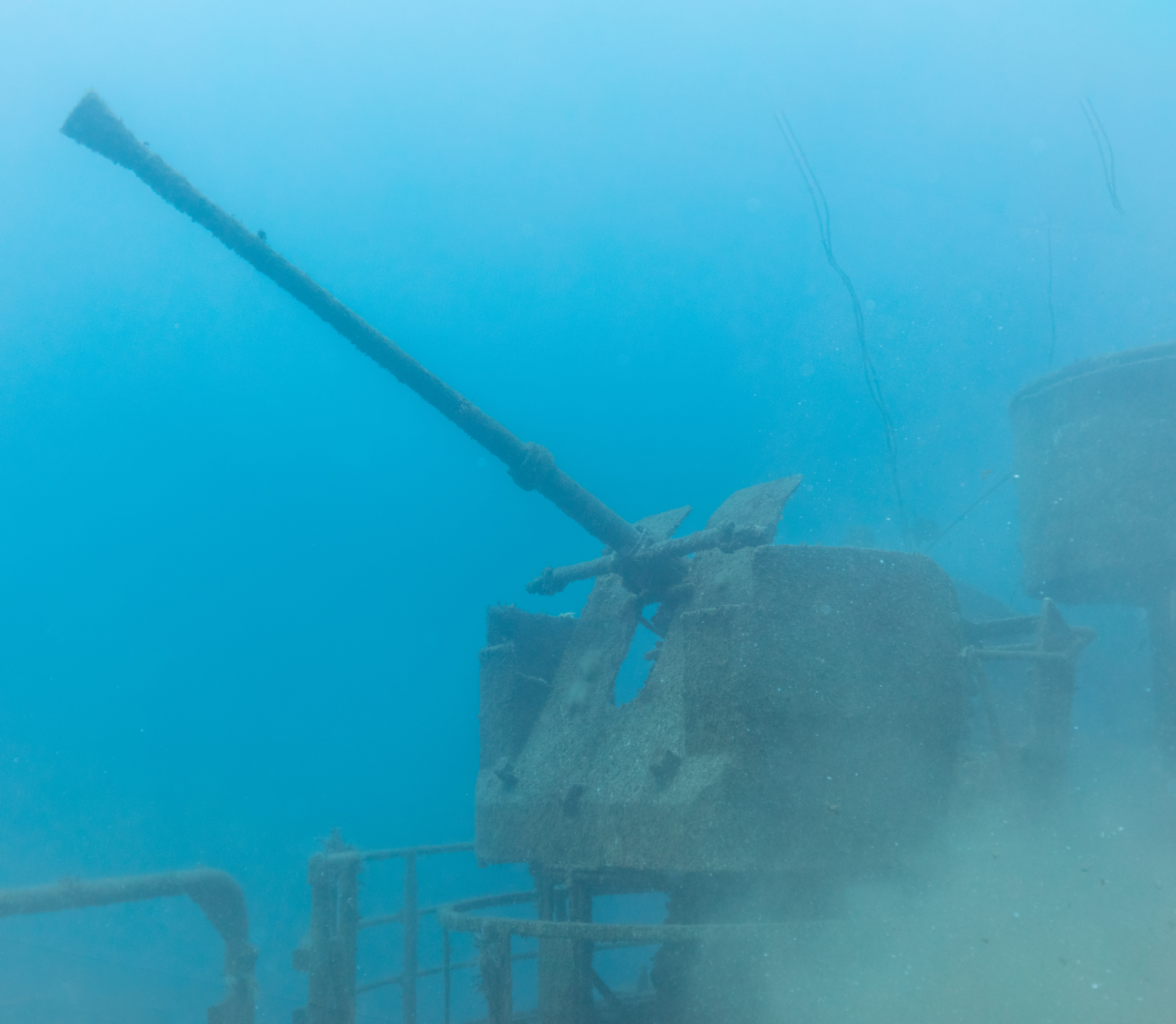 Afonso Cerqueira Corvette, Madeira, Portugal